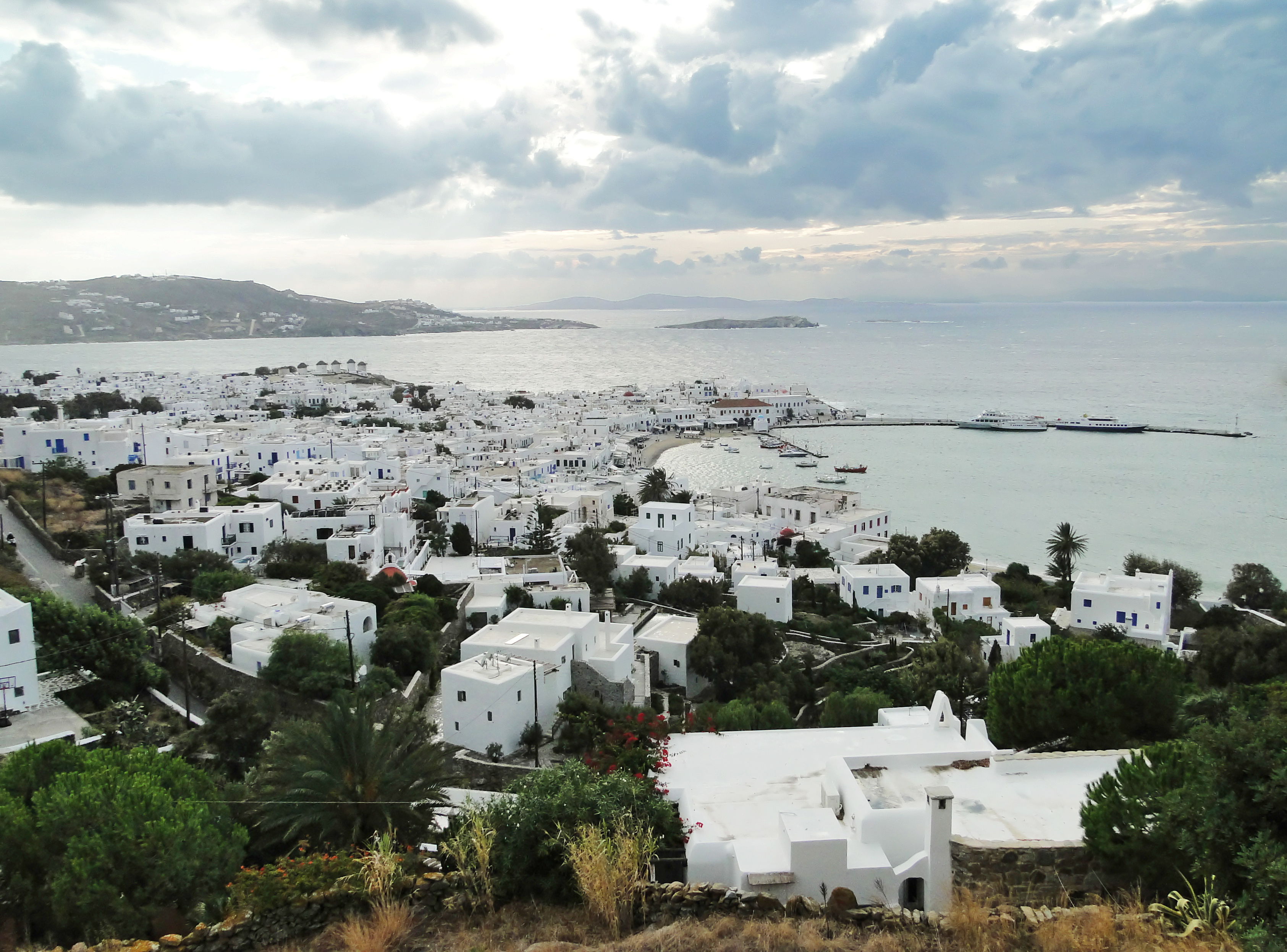 View of Chora (Mykonos City), Mykonos, Greece